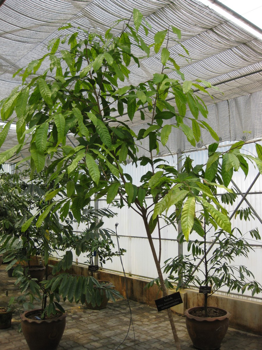 In the foreground — Vatica diospyroides Symington. Photographed at the Queen Sirikit Botanic Garden (Chiang Mai Province, Thailand) in March